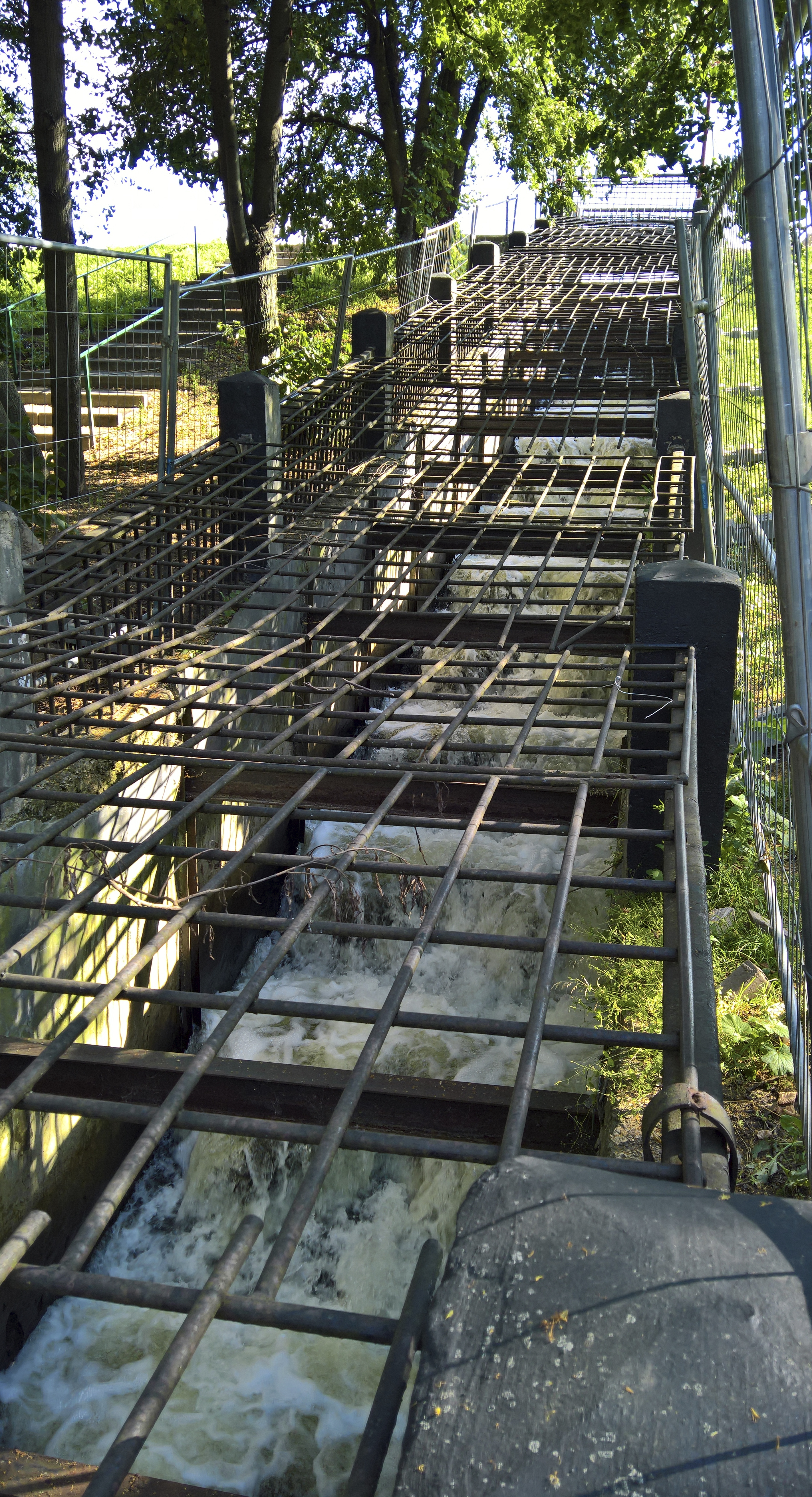 Waterway of Lihoborka river from the Big Golovinsky pond